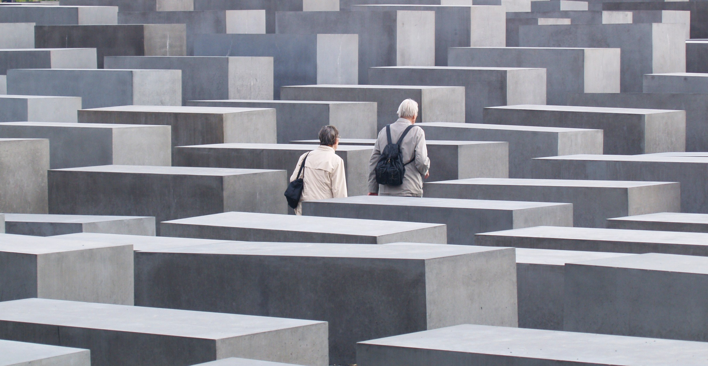 an elderly couple walking in the Memorial to the Murdered Jews of Europe, Berlin.